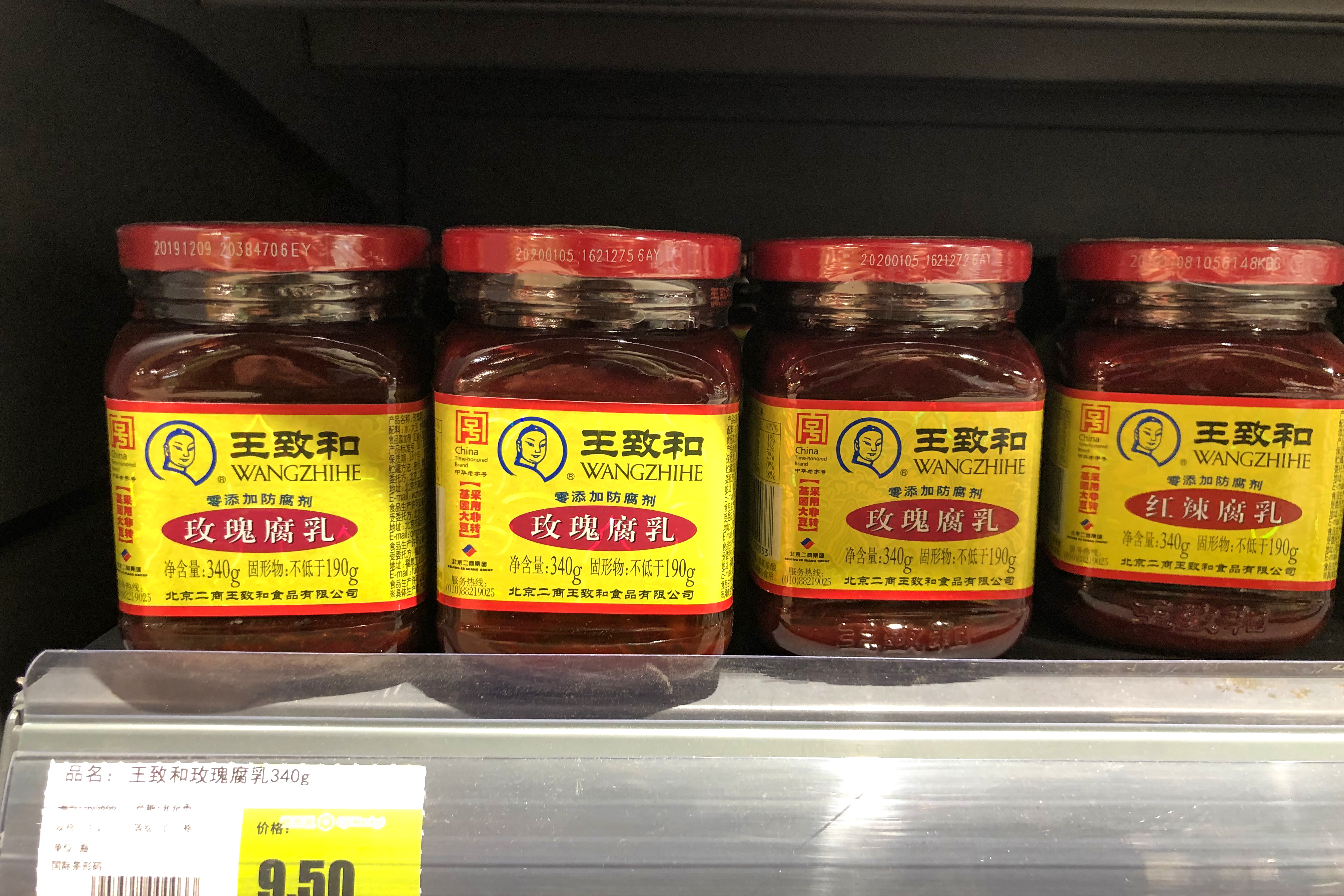 Time-honoured brand in Beijing.